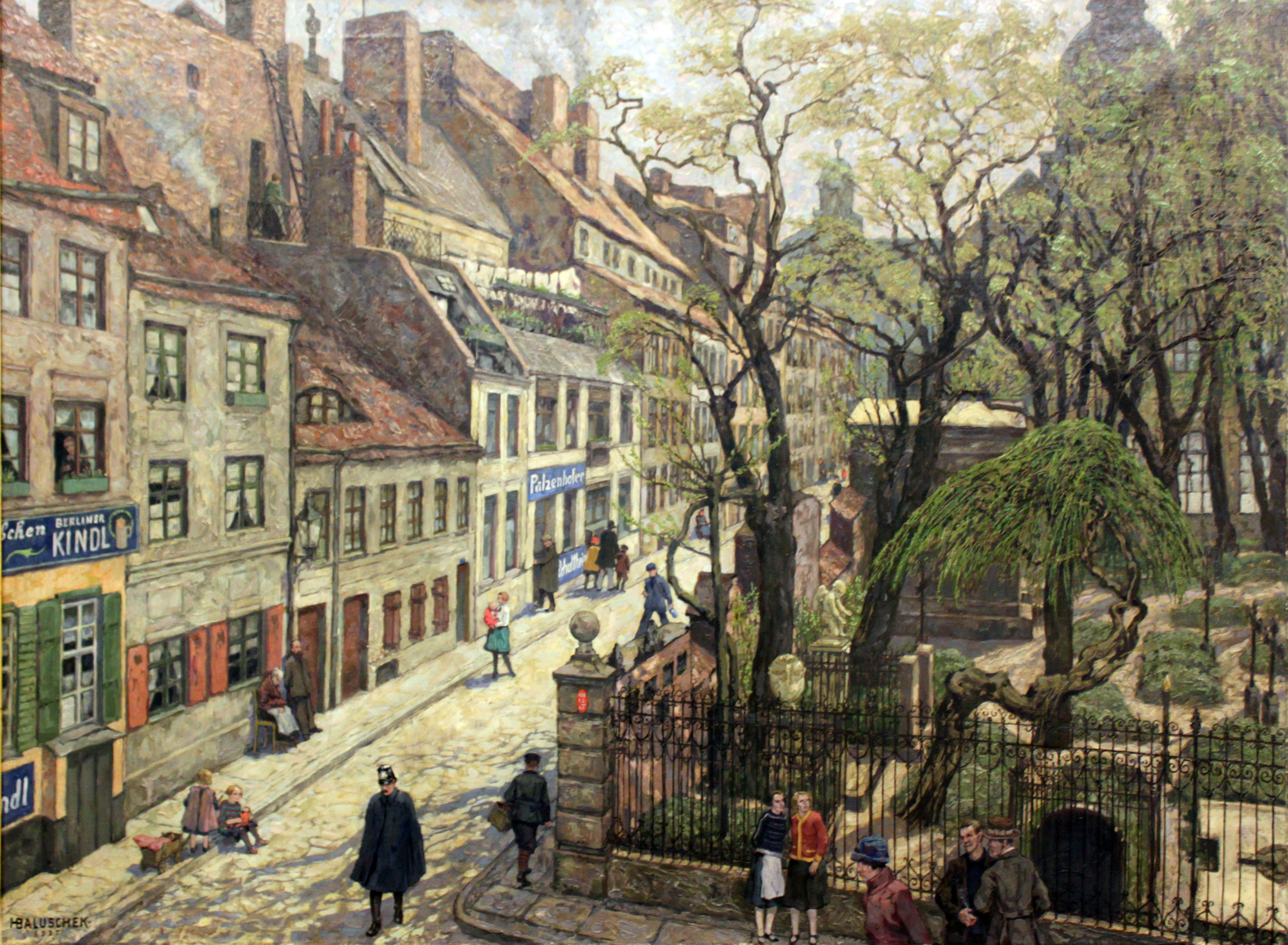 Alt-Berlin, Waisenstraße